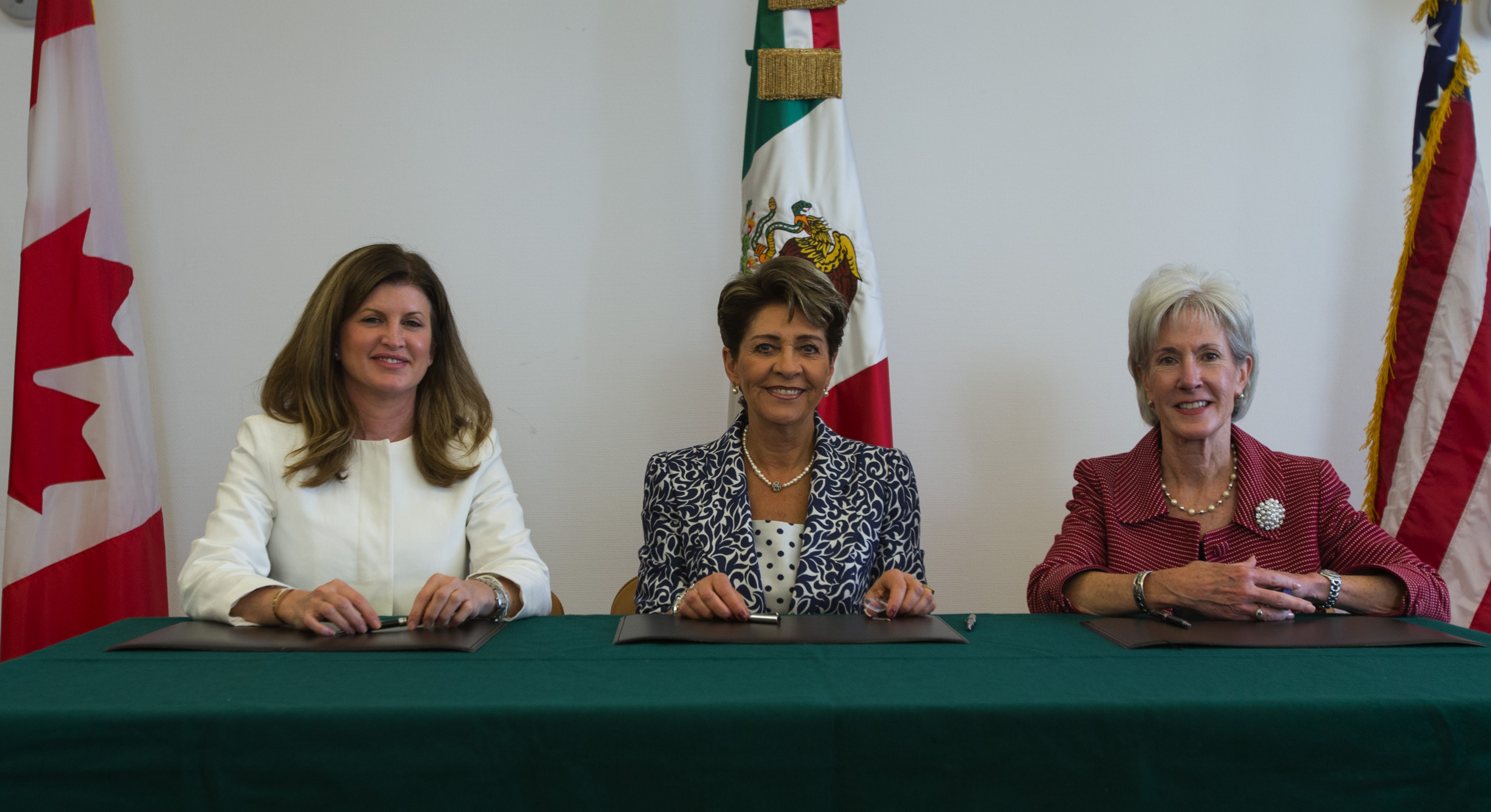 Trilateral with Mexico, Canada and U.S at the 67th World Health Assembly.